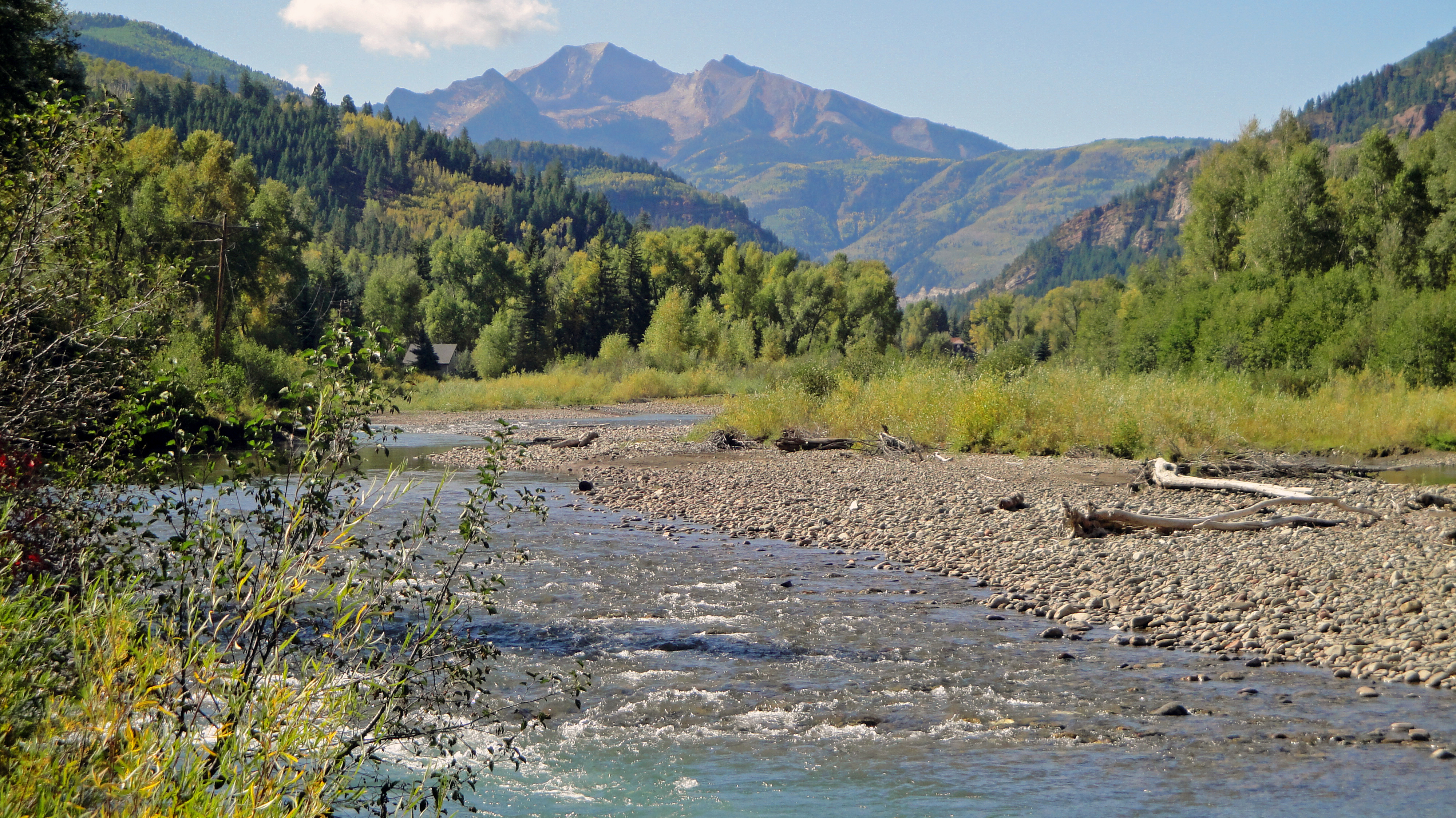 View upstream along Crystal River with Elk Mountains in distance